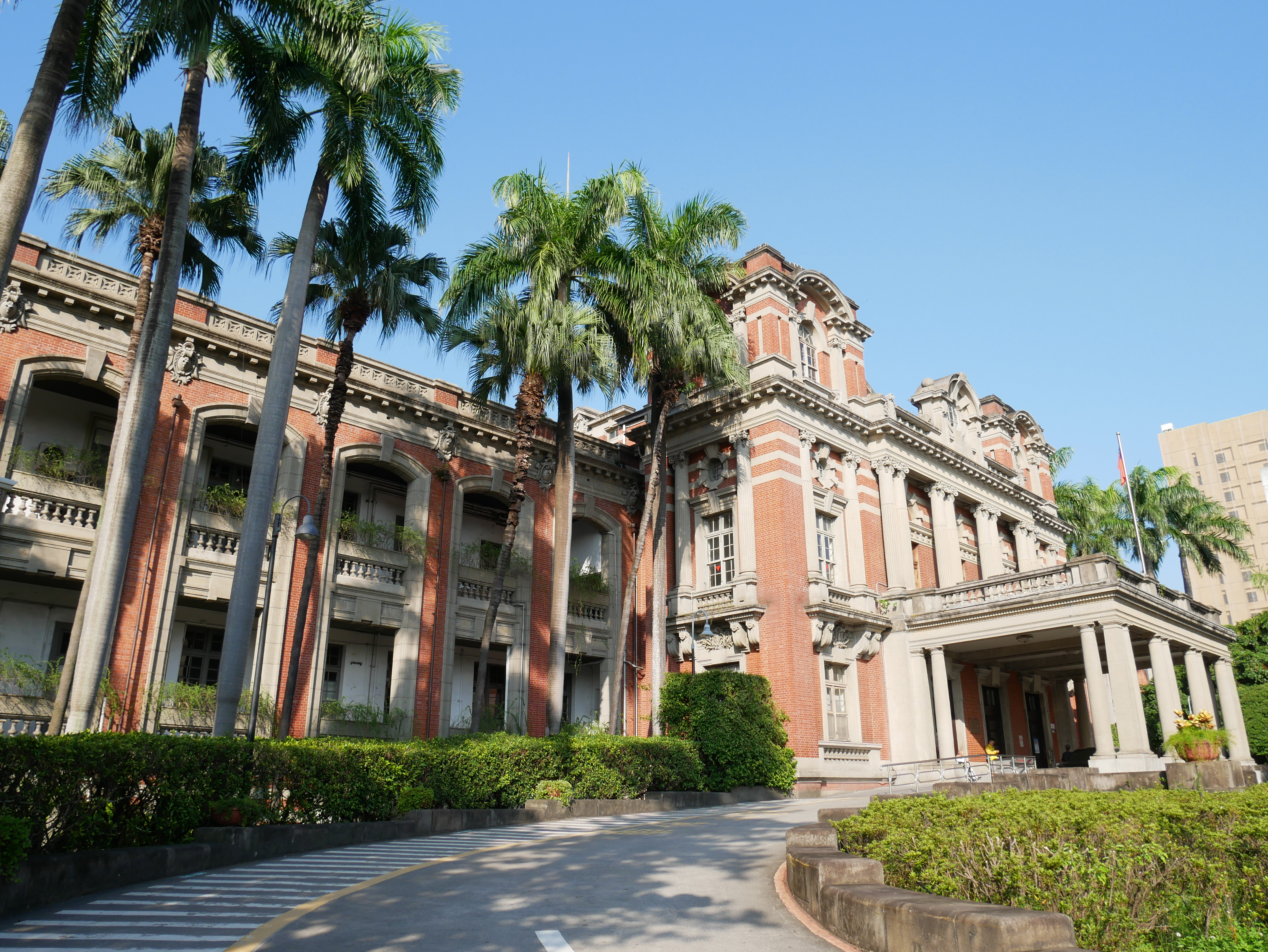 臺北帝國大學醫學部附屬醫院，臺北市中正區城內次分區黎明里